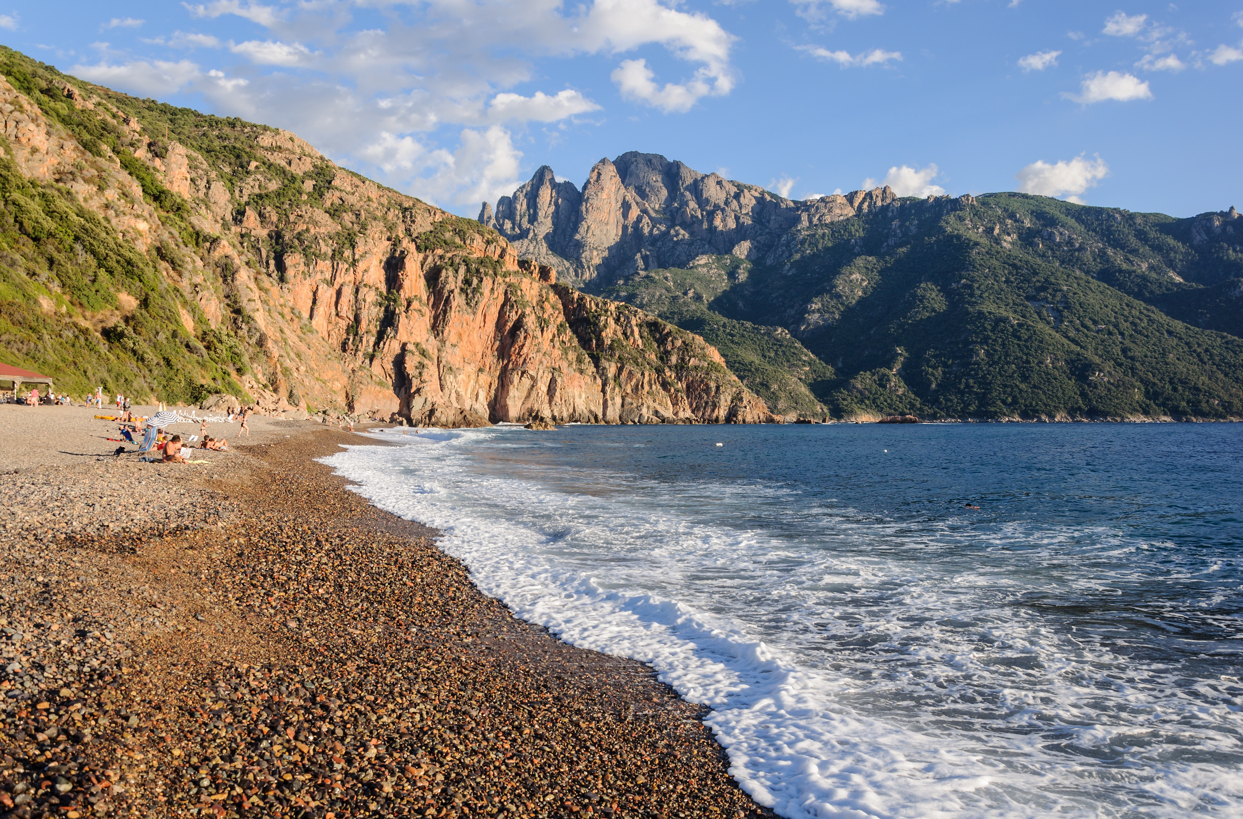 Bussaglia beach in Serriera, Southern Corsica, France